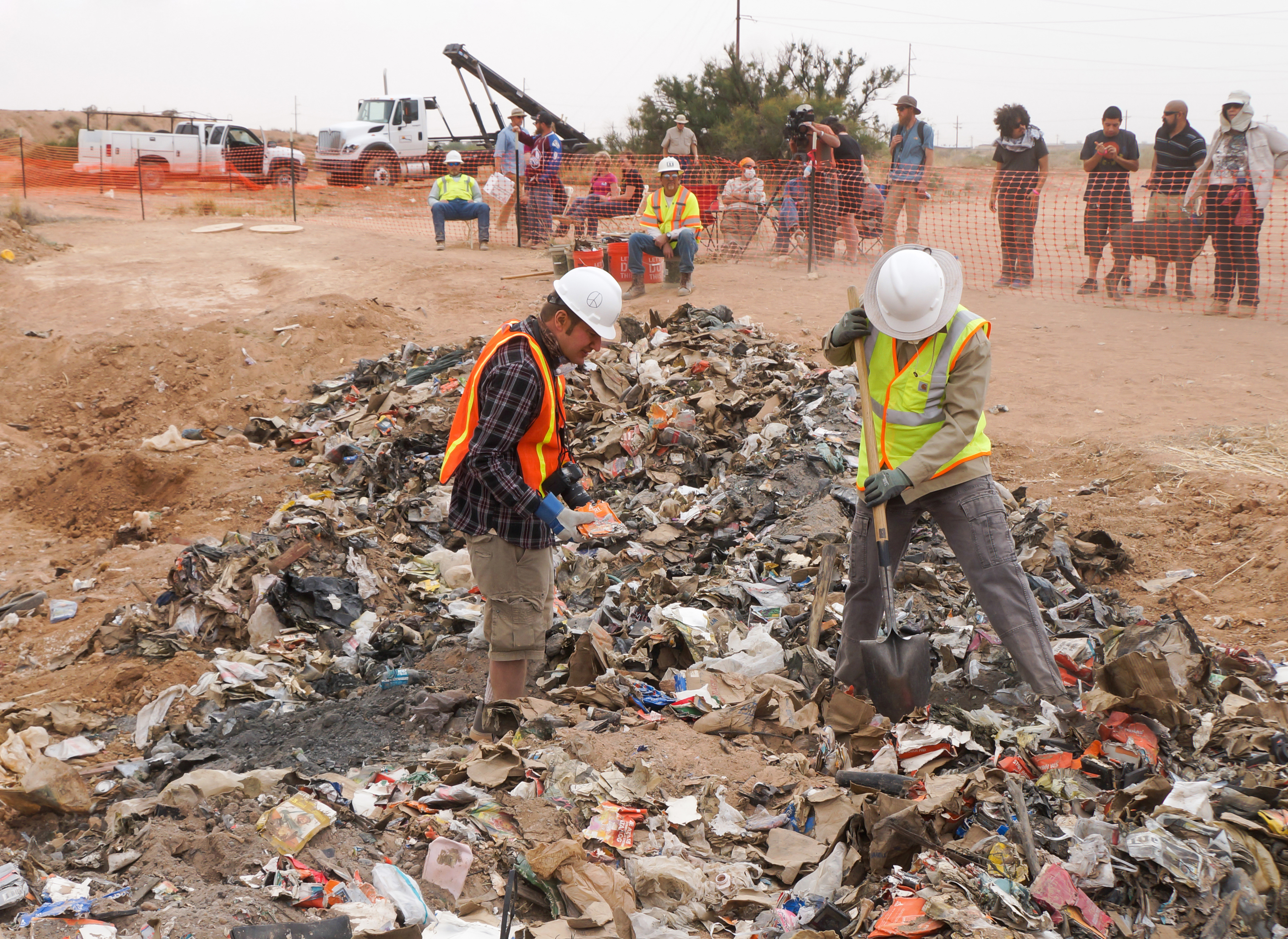 Derivative of File:Atari E.T. Dig- Alamogordo, New Mexico (14039327125).jpg; edited by uploader